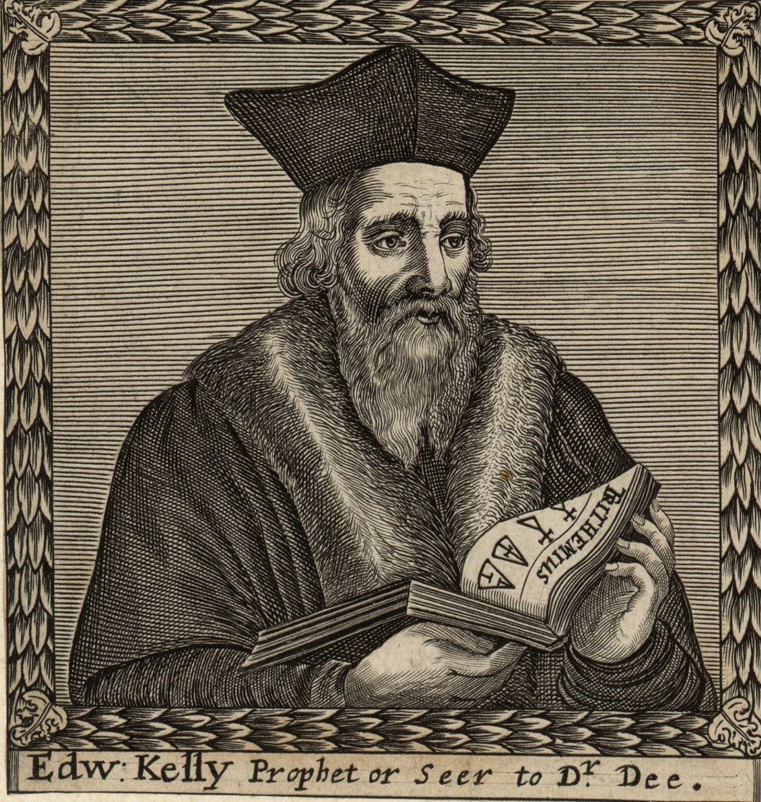 An image from a set of 8 extra-illustrated volumes of A tour in Wales by Thomas Pennant (1726-1798) that chronicle the three journeys he made through Wales between 1773 and 1776. These volumes are unique because they were compiled for Pennant's own library at Downing. This edition was produced in 1781. The volumes include a number of original drawings by Moses Griffiths, Ingleby and other well known artists of the period. Thomas Pennant (1726-1798)